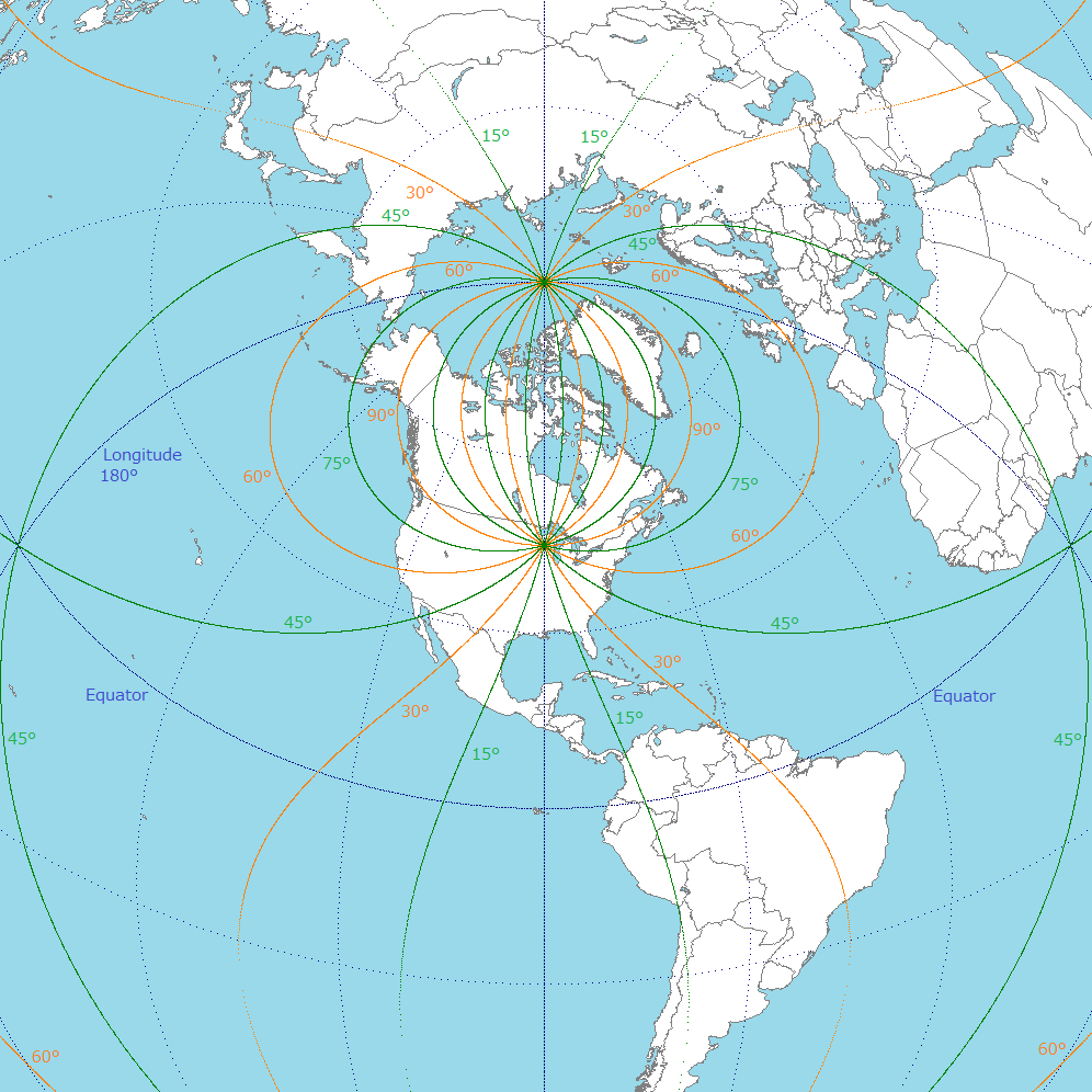 Contours show the angle between North pole and the center point (45degree N, 90degee W) from each point. Each contour means a radius line from the center in a retroazimuthal projection with the same center. This map is drawn in a azimuthal equidistant projection.